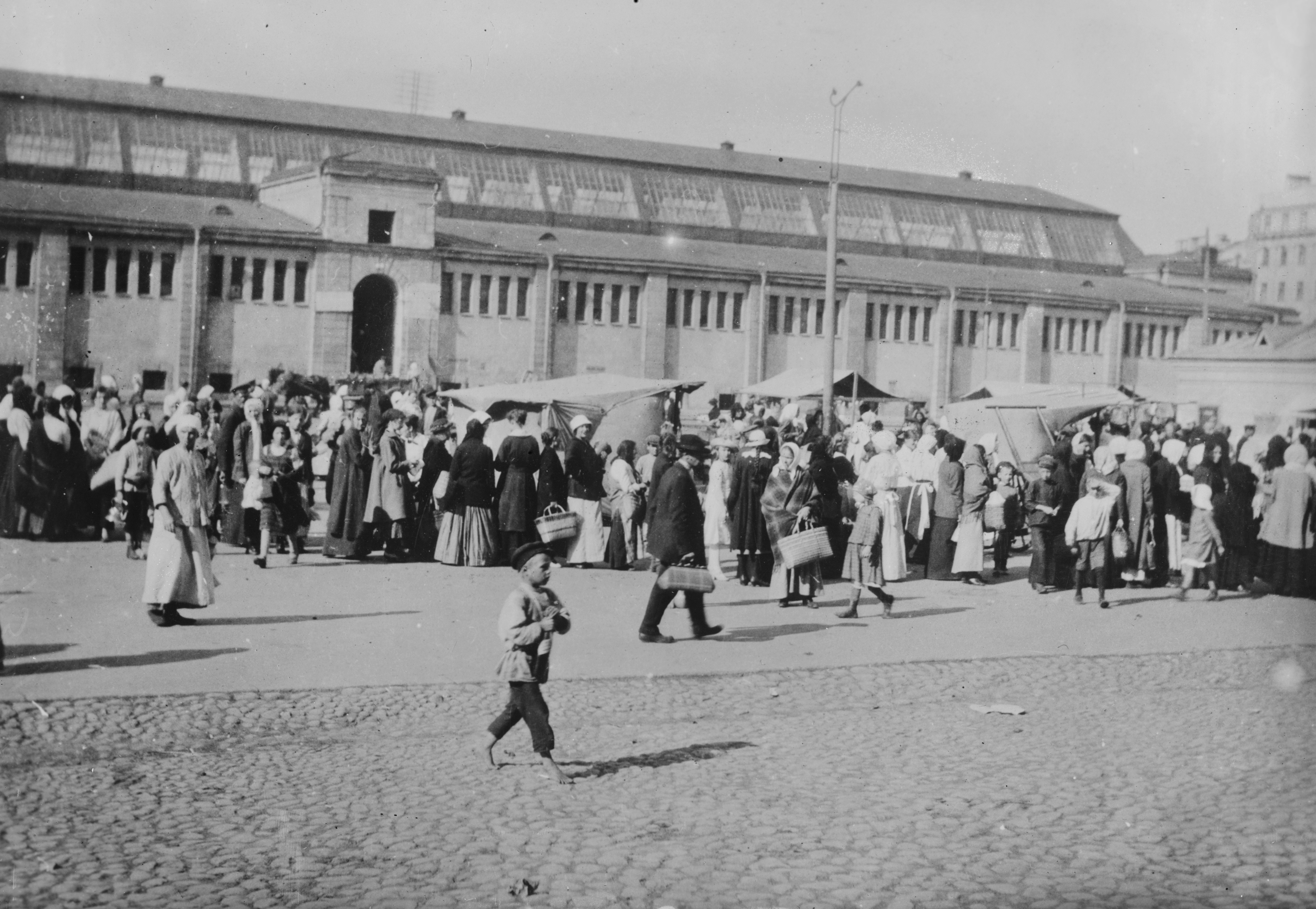 Original Description: Milk line, Petrograd.Photograph shows people at Sytny Market in Petrograd.